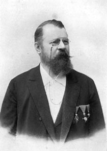 Vencel József Schunda (1845-1923)